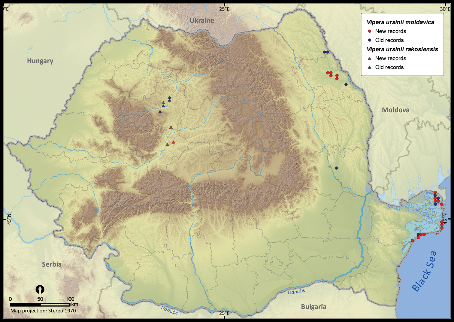 Distribution of Vipera ursinii in Romania